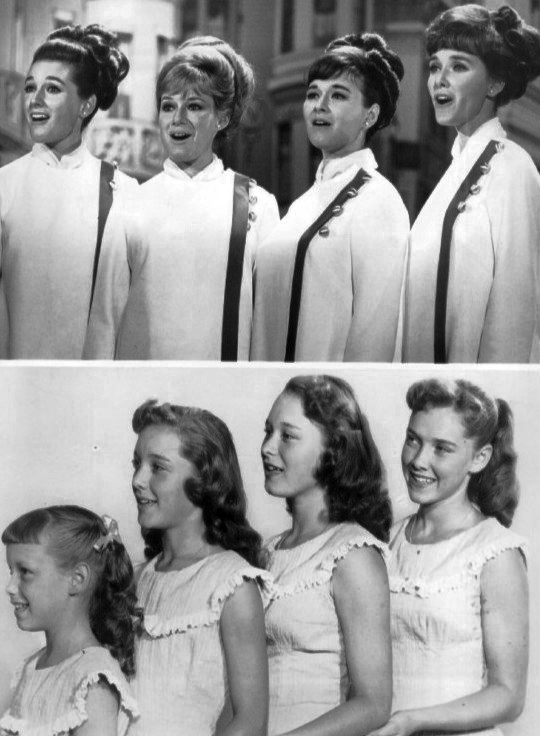 Publicity photo of the singing Lennon Sisters from the television program Jimmy Durante Presents the Lennon Sisters. The group is shown in 1969 and in 1955, when they became regulars on The Lawrence Welk Show. 1969, from left: Kathy, Janet, Peggy and Diane. 1955, from left: Janet, Kathy, Peggy and Diane.